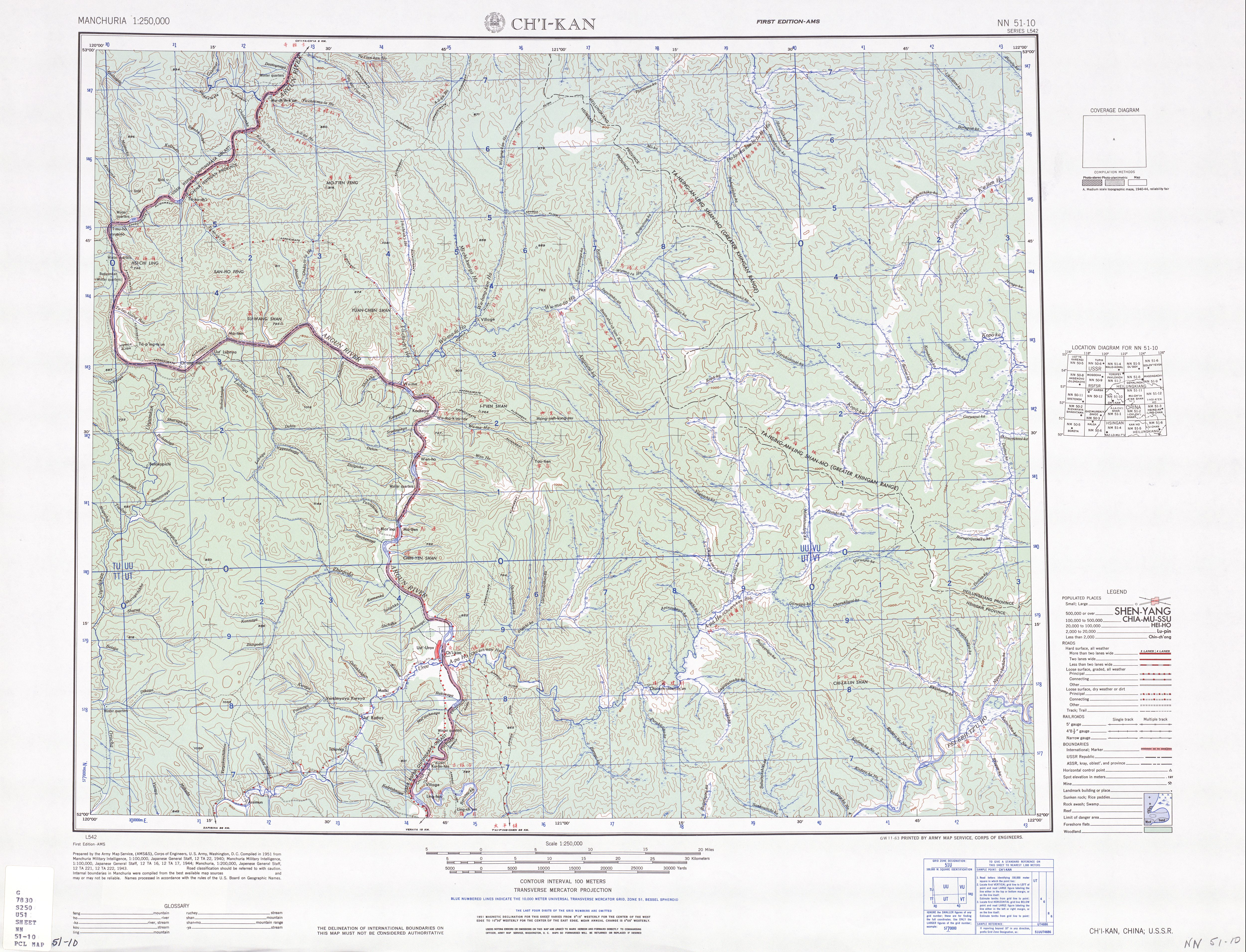 Map of Jiqian (Ch'i-kan) area, Inner Mongolia